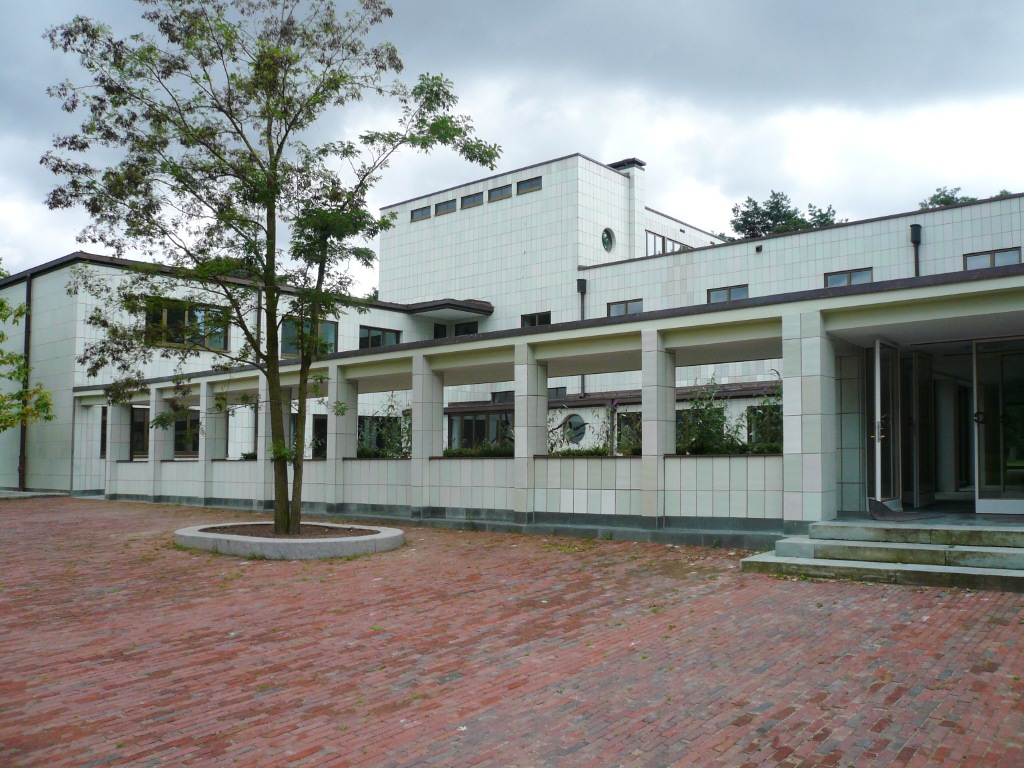 Haus K. in O. -Villa Reemtsma - in Hamburg Othmarschen; Nordseite mit Hof This is a photograph of an architectural monument. , 28592